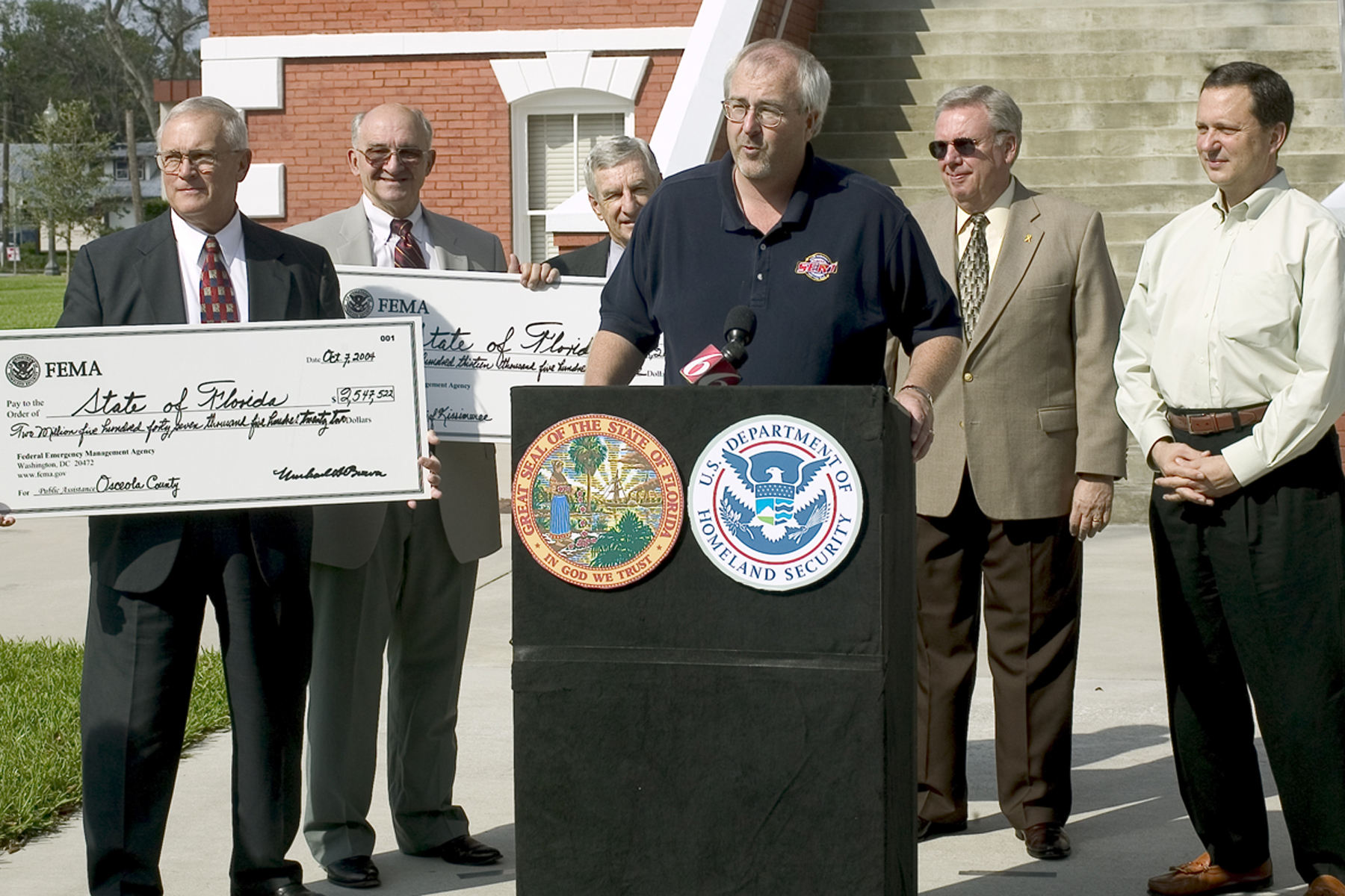 Kissimmee,FL., October 7, 2004 -- State Coordinating Officer, Craig Fugate addresses Osceola County citizens after FEMA Director Mike Brown presented a reimbursement check for Public Assistance debris removal to Osceola County Chairman, Ken Shipley, and Kissimmee Mayor George Grant following hurricane Charley's impact. FEMA Photo/Andrea Booher